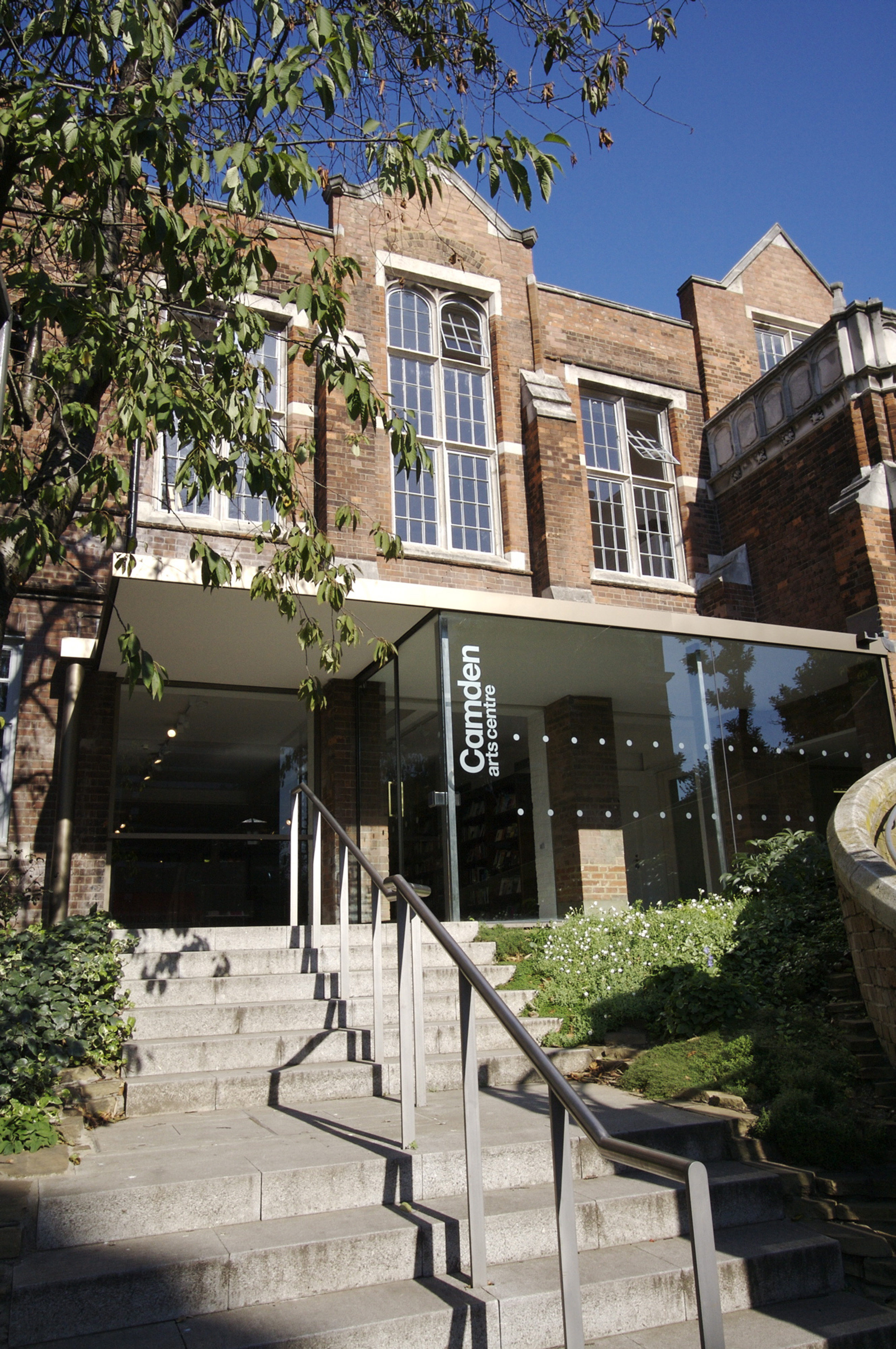 Camden Arts Centre, London. Copyright Camden Arts Centre